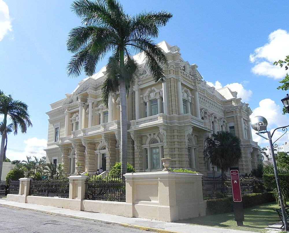 Palacio Cantòn - Mérida